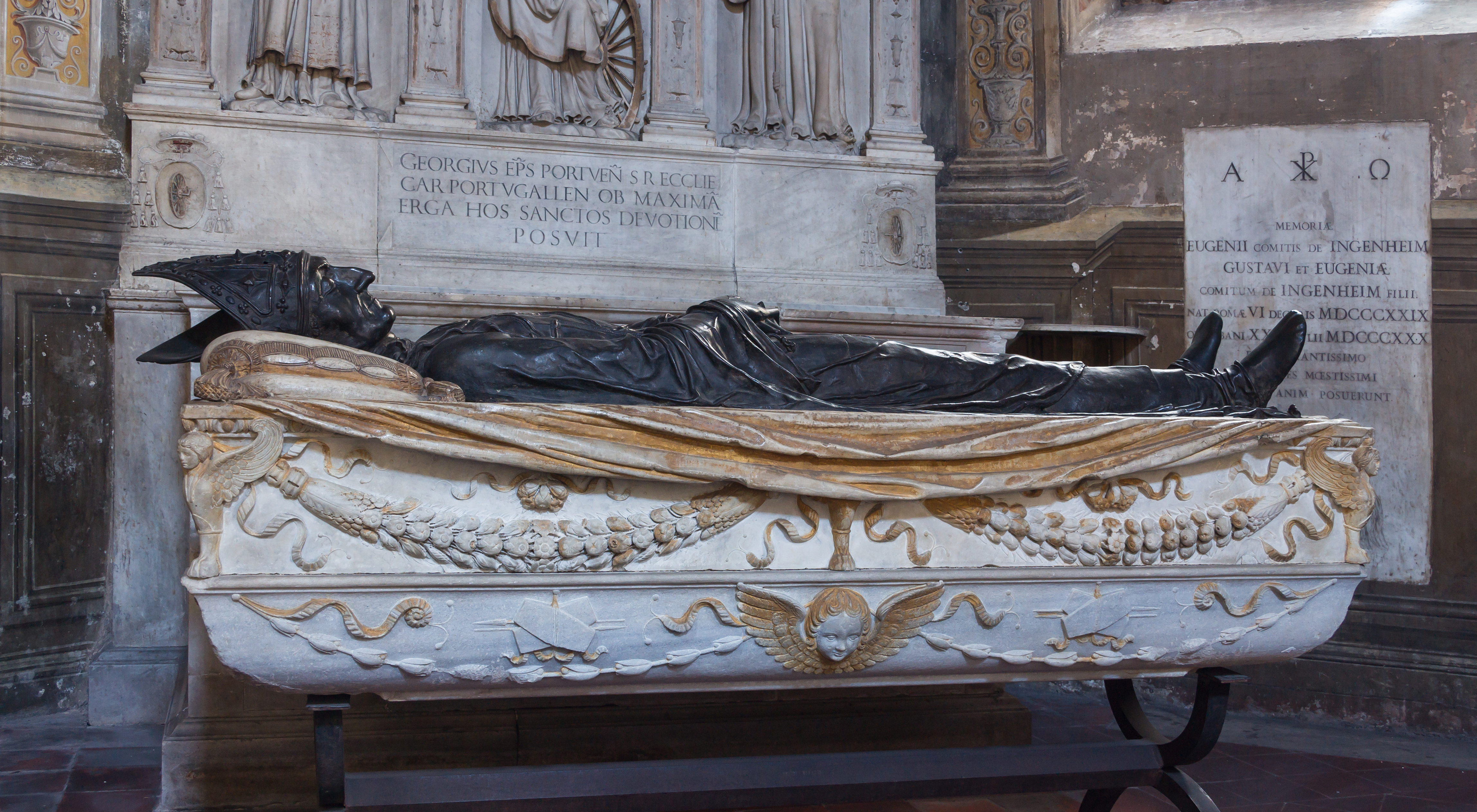 Sarcophagus of Cardinal Pietro Foscari, by Giovanni di Stefano (1480s), marble and bronze, Costa Chapel, church Santa Maria del Popolo, Rome, Italy.